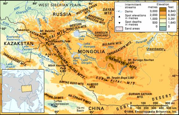 موقع جبال ألطاي في آسيا الوسطى